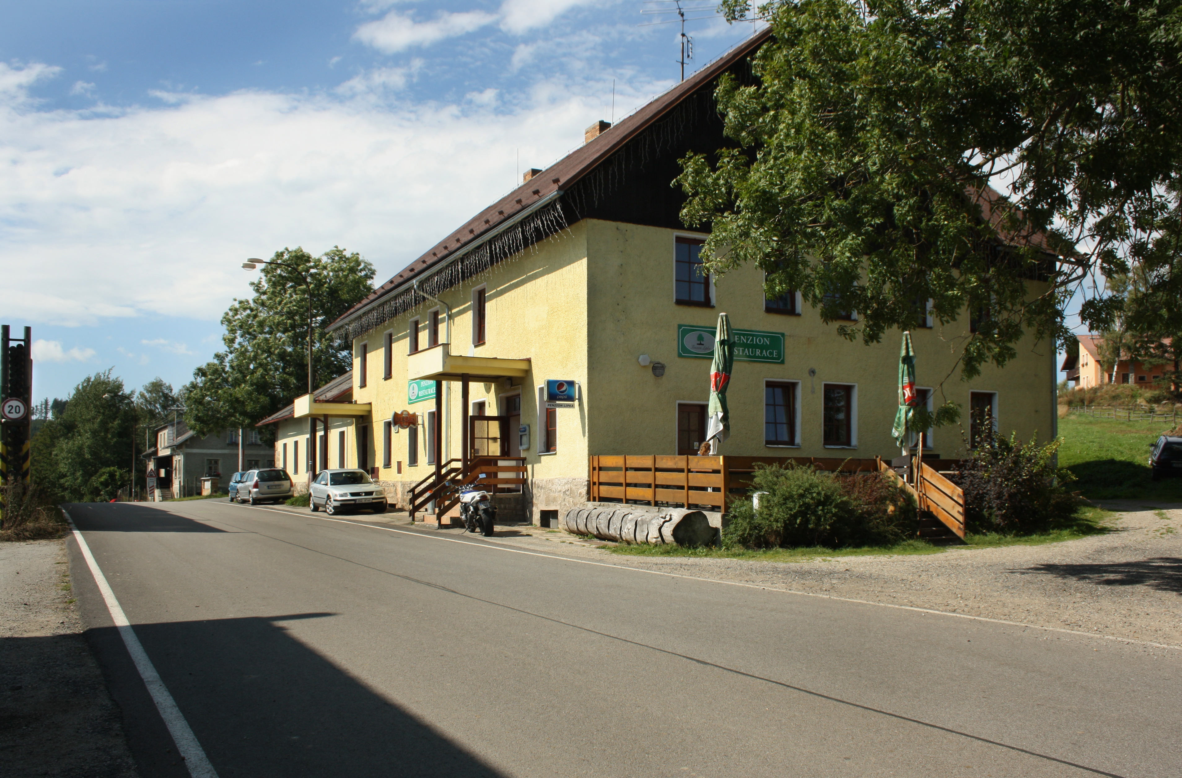 Main street in Lipka, part of Vimperk, Czech Republic